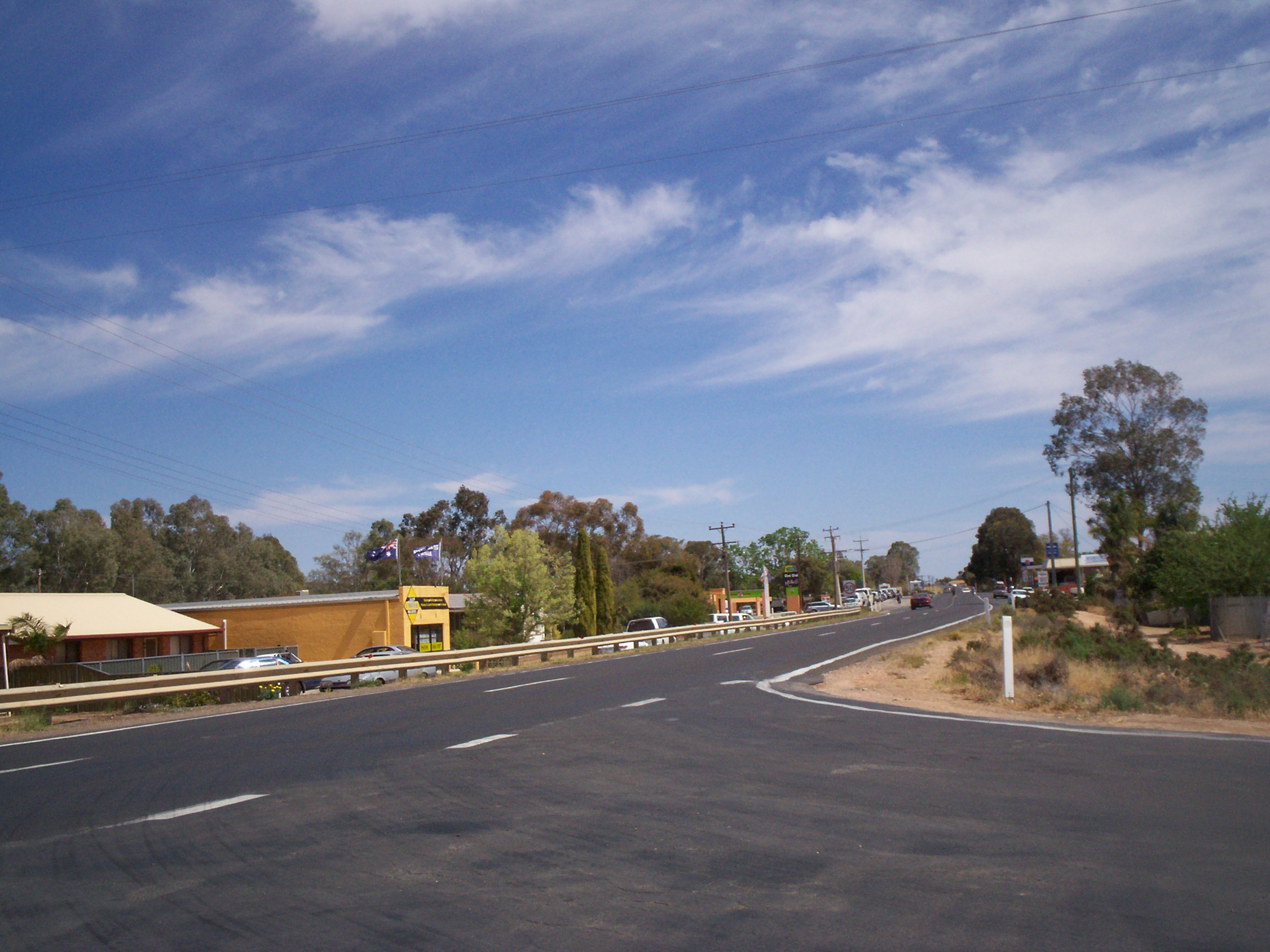 Gol Gol